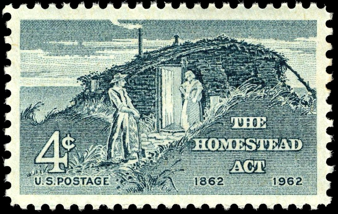 Image of US Postage stamp, 4c, Homestead Act of 1862.